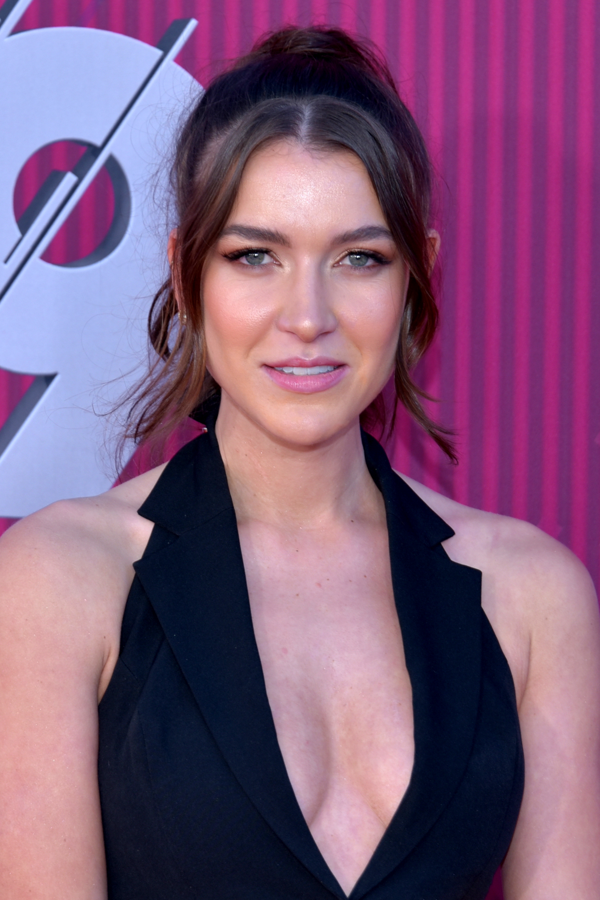 Nathalia Ramos at the 2019 iHeartRadio Music Awards in Los Angeles California - Photo by Glenn Francis of